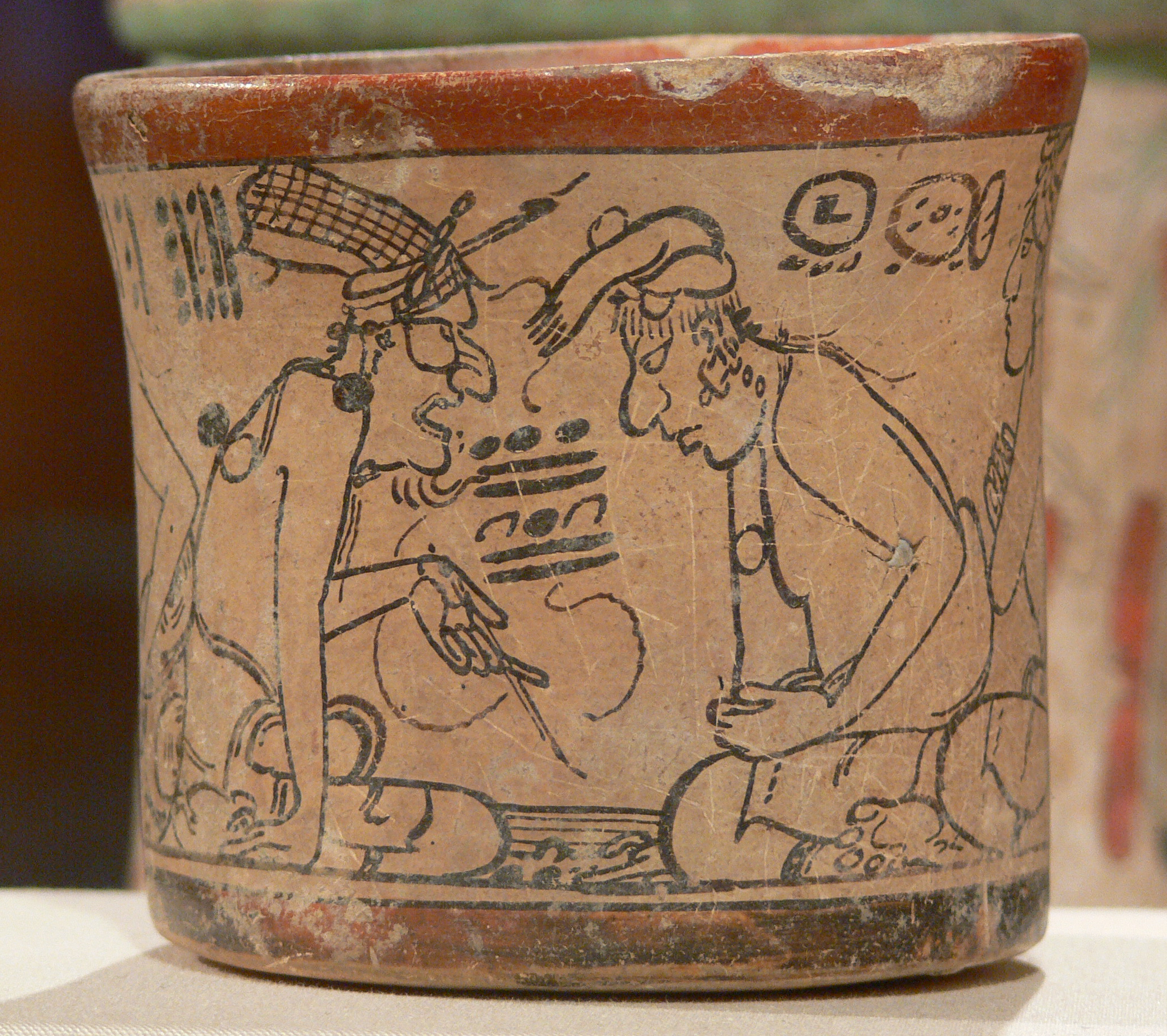 Codex-Style Vessel with Two Scenes of Pawahtun Instructing Scribes; c. A.D. 550–950; Possibly Mexico or Guatemala, Maya culture, Late Classic period (A.D. 600–900); Ceramic with monochrome decoration; height 8.9 cm Kimbell Art Museum, Fort Worth, Texas; AP 2004.04